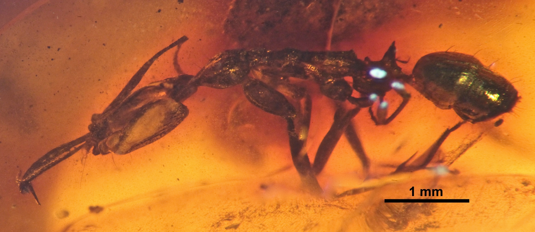 Profile view of the Anochetus ambiguus paratype specimen SMNSDO4015